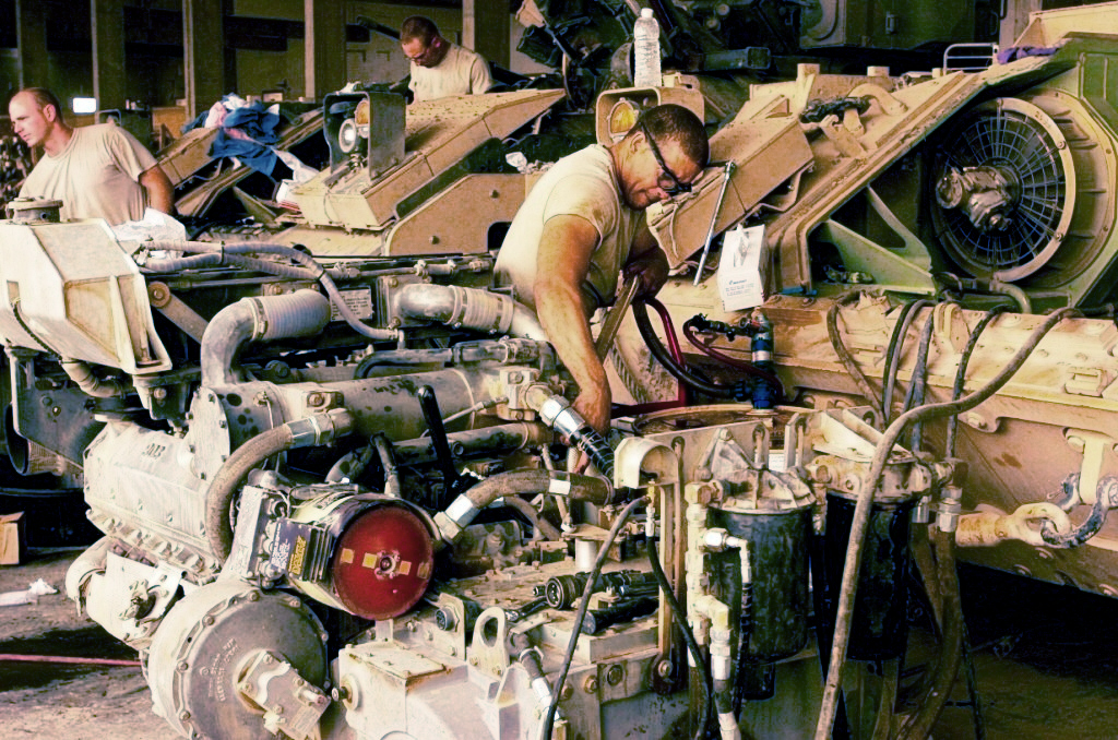 Sgt. Thomas Cosbeeyoma, a Bradley mechanic with Company B, 2nd Battalion, 6th Infantry Regiment, pumps oil into the engine of a Bradley fighting vehicle after semi-annual servicing at Combat Outpost Summers, Iraq, July 8, 2008. Sgt. David Turner, 4th